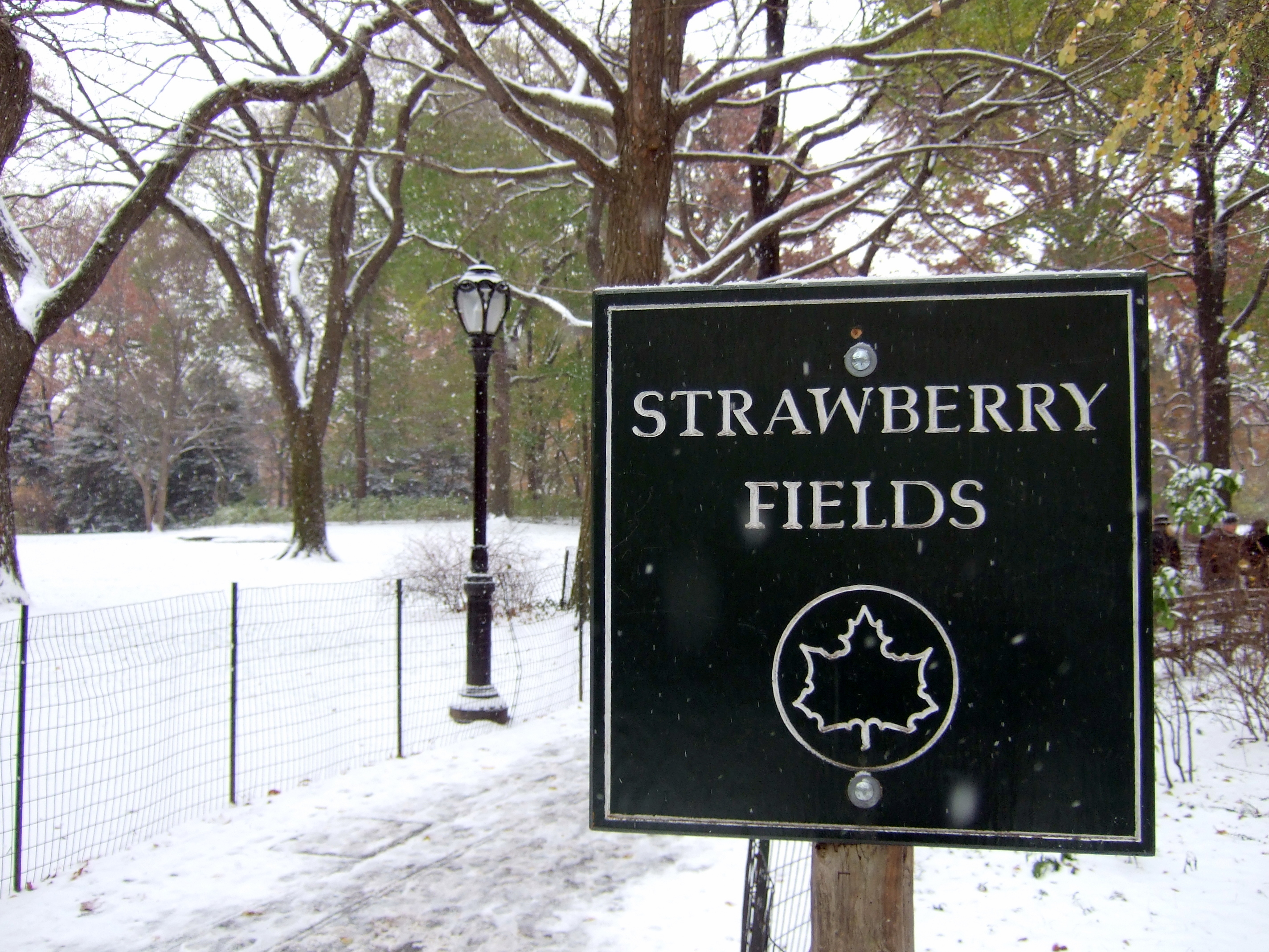 Strawberry Fields sign